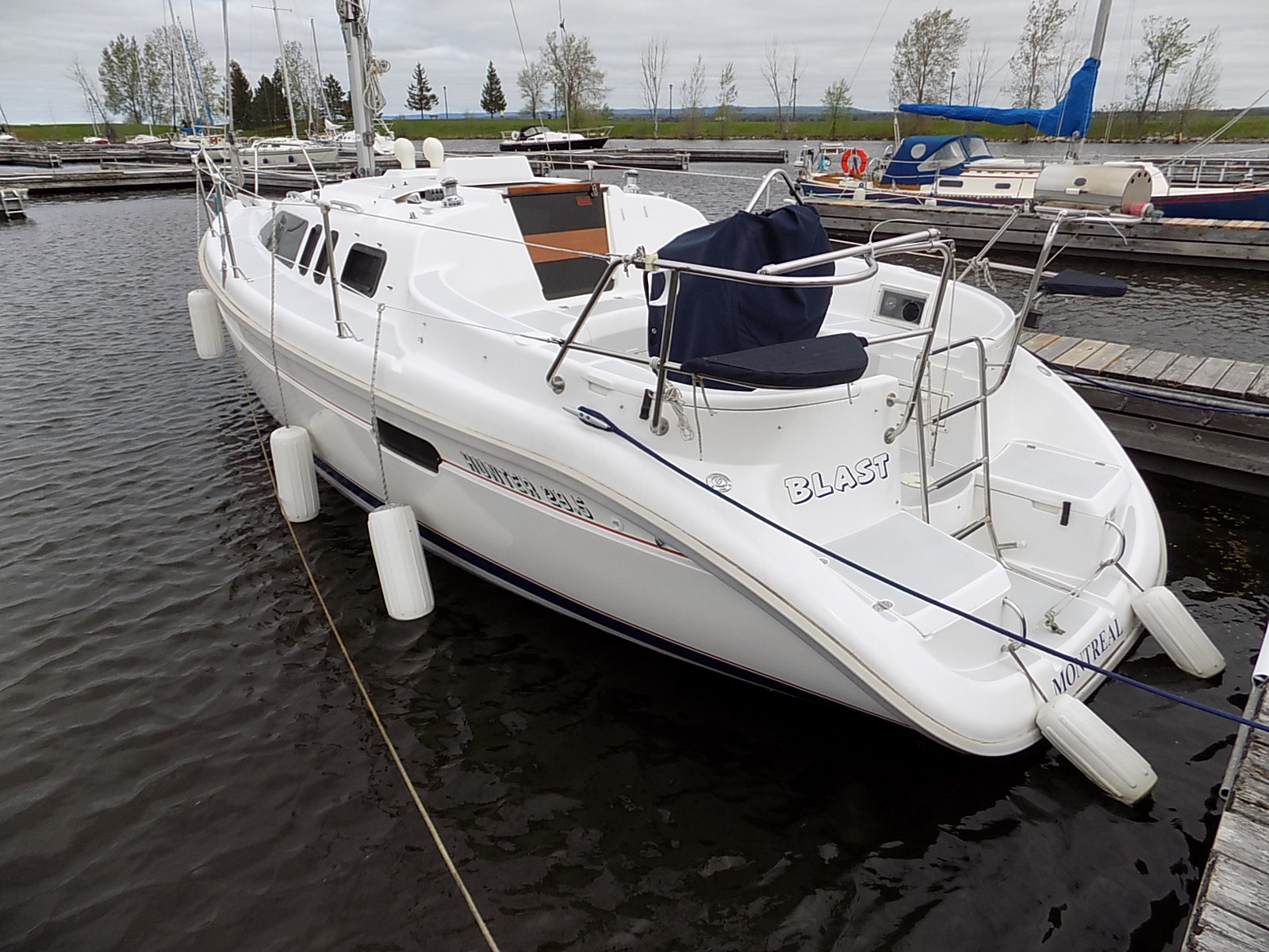 A Hunter 29.5 sailboat named Blast.